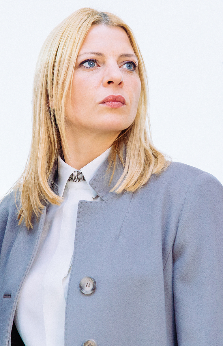 Jördis Triebel am Set des TV-Dramas "Ein Atem" (Köln)